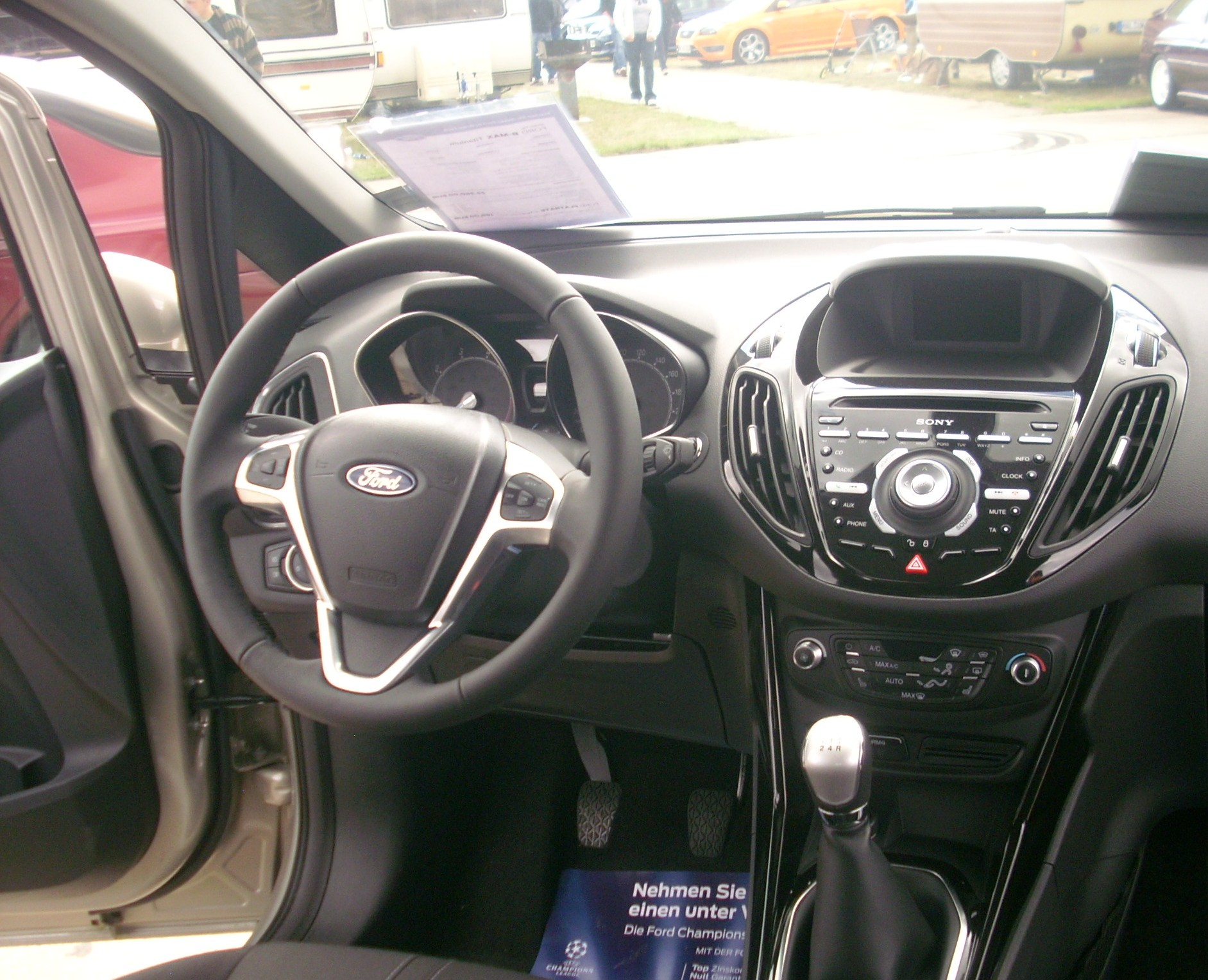 Dashboard of a 2012 Ford B-MAX Titanium